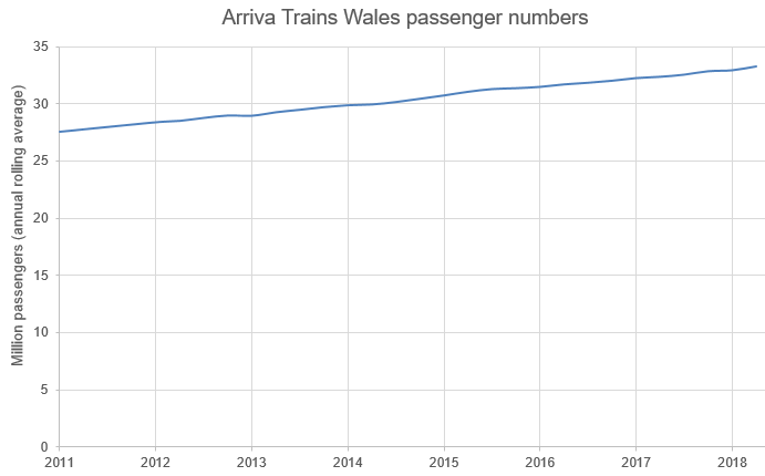 ATW passenger numbers from 2010 to 2017 ORR ATW Key stats ORR Passenger rail usage by TOC